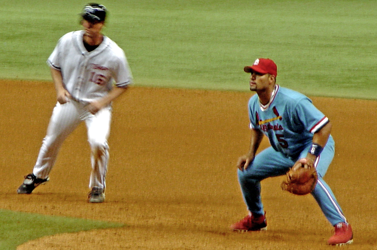 Albert Pujols holding a man at first, June 18th, 2005. Notice the "throw back" to 1982 jersey. Photo by Googie Man. 02:55, 19 June 2005 . . Googie man . . 1200×796 (352 KB)